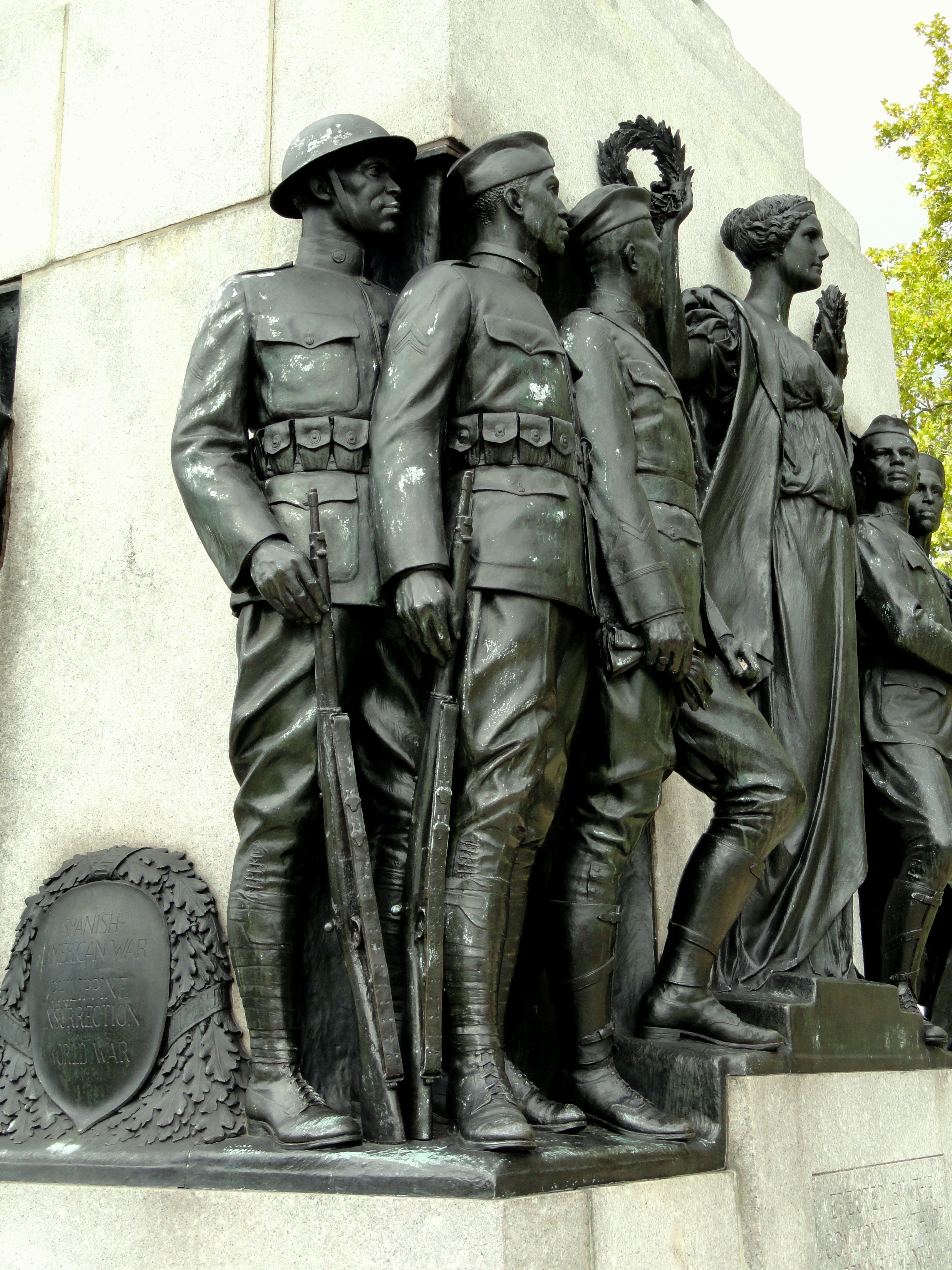 All Wars Memorial to Colored Soldiers and Sailors, sculpted by J. Otto Schweizer, 1934. Currently located on Landsdowne Drive near Memorial Hall (West side of Fairmount Park), Philadelphia, Pennsylvania, USA. Smithsonian American Art Museum's Art Inventories Catalog: Control number PA000002 (dcMem ID #6568 ) .